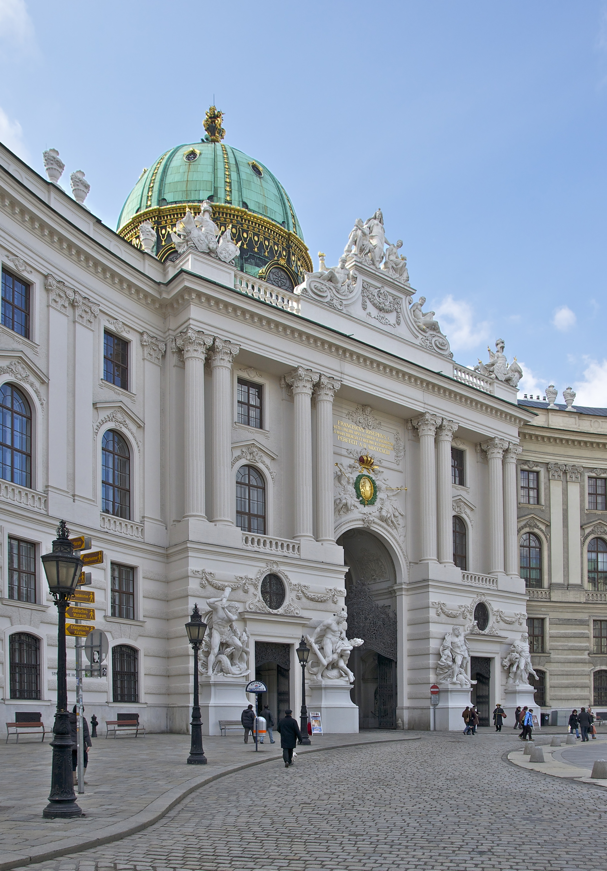 "Michaelertor" (Saint-Michael gate), one of the entrances of the Hofburg palace, Vienna, Austria.